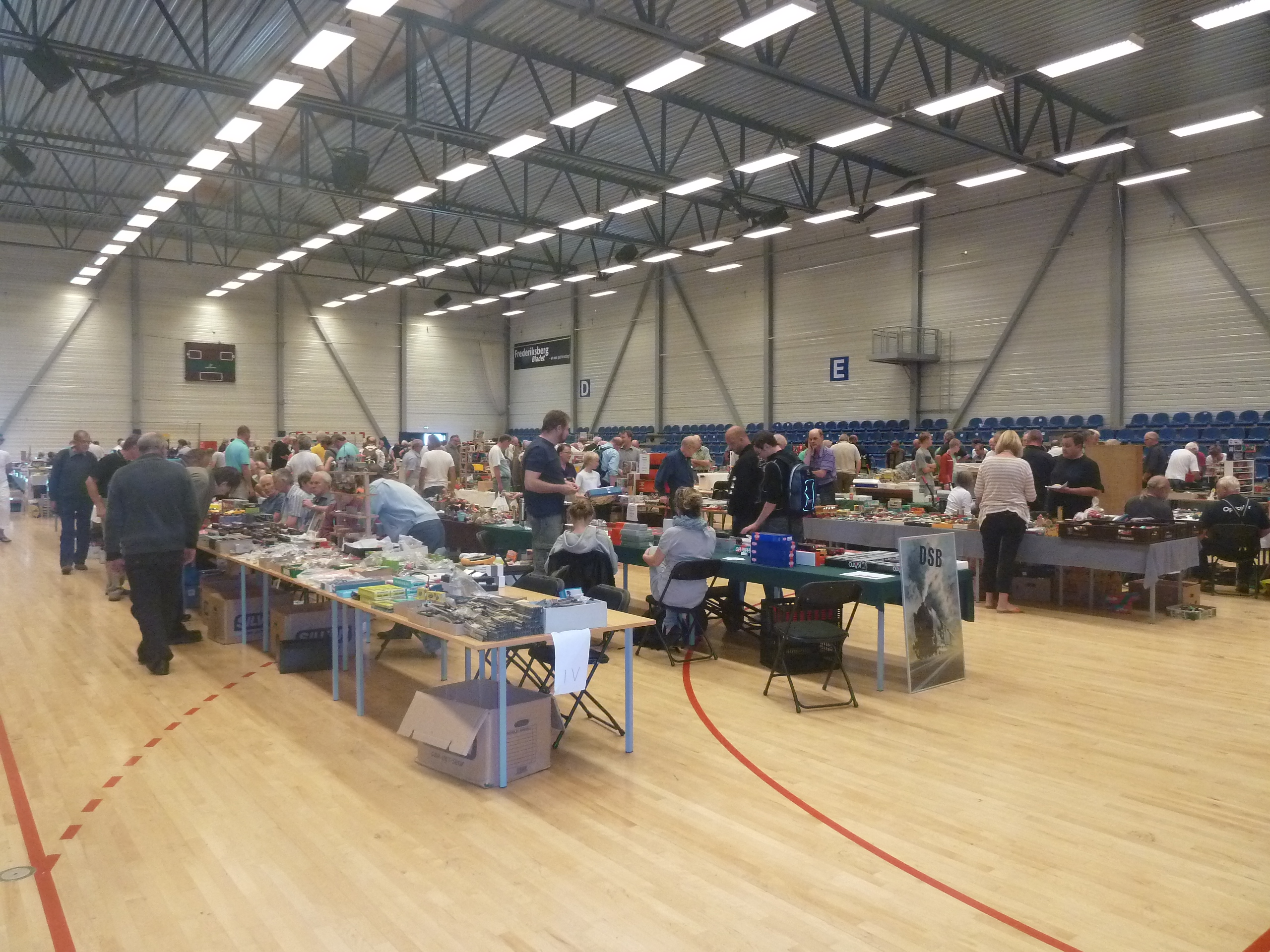 Market for old toys in Frederiksberg-Hallerne, Copenhagen. The place is mostly used for sport but some times like here there are markets as well.